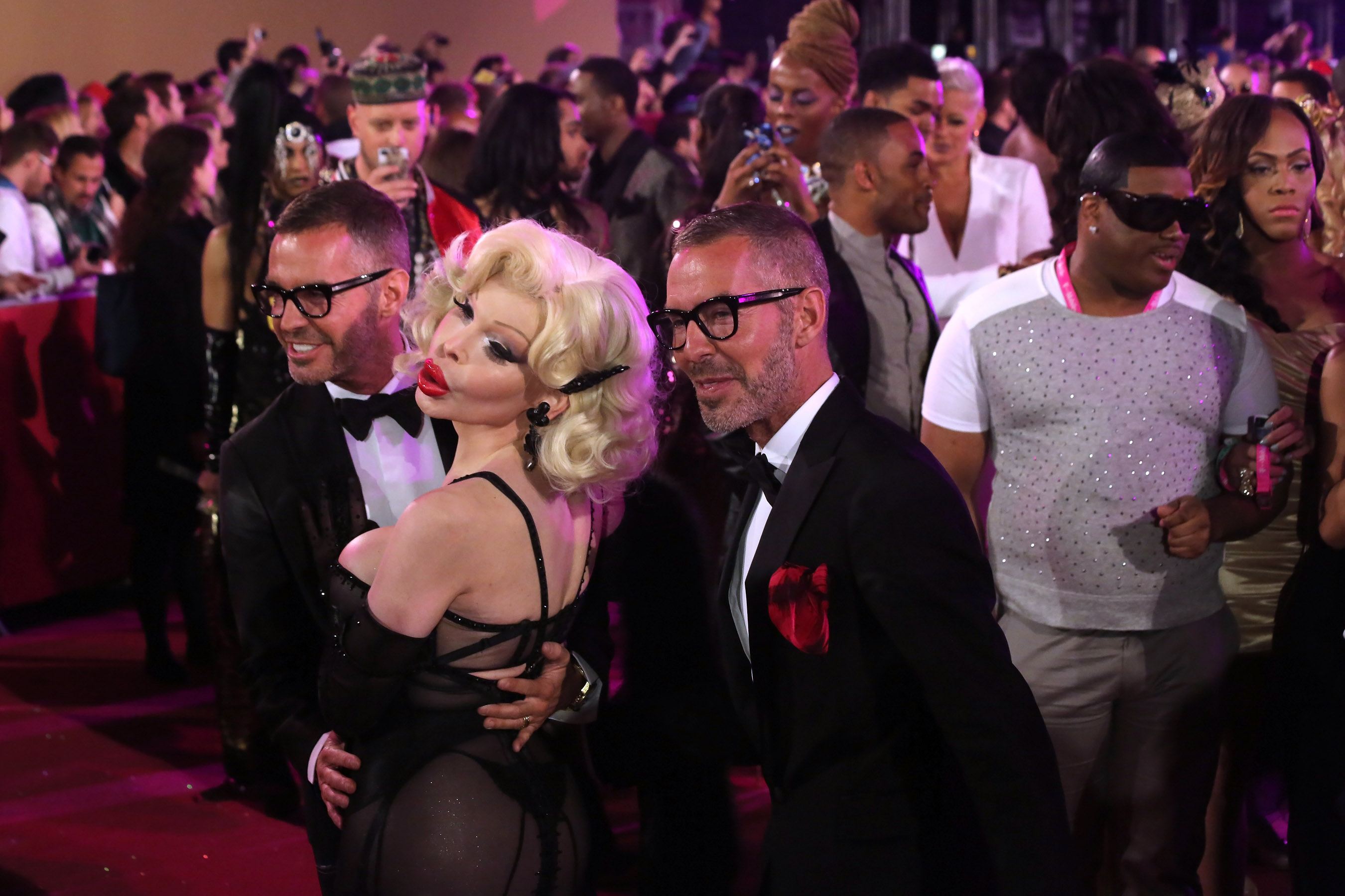 Amanda Lepore and Dean and Dan Caten (DSQUARED2) on the 'magenta carpet' at Life Ball 2013 at the square in front of the city hall of Vienna, Vienna, Austria.